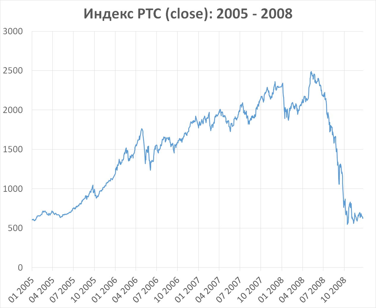 Chart showing dynamics of RTS Index (Russia) from January 1, 2005 to December 31, 2008. Source data